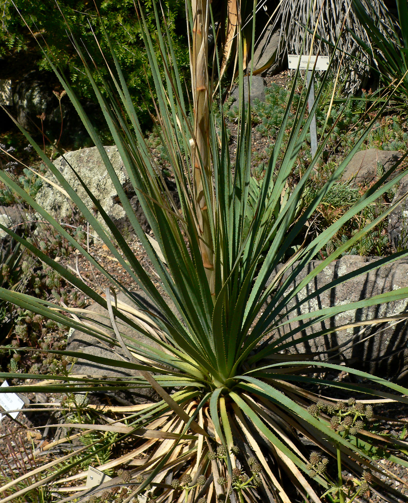 Dasylirion durangense at the University of California Botanical Garden, Berkeley, California